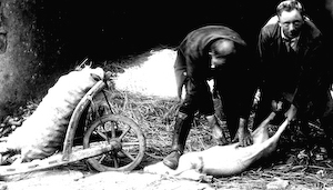 Castration of a pig